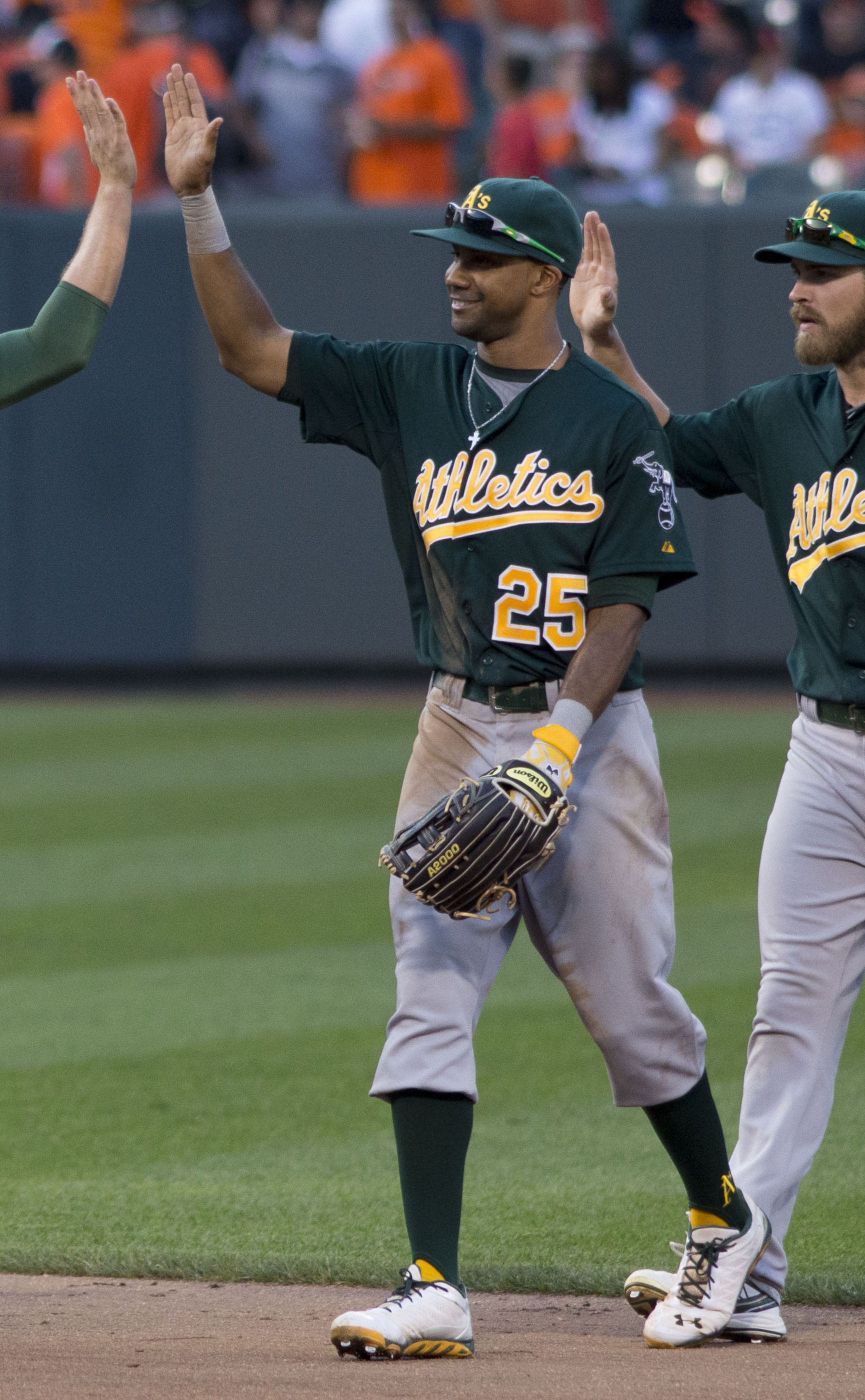 Chris Young